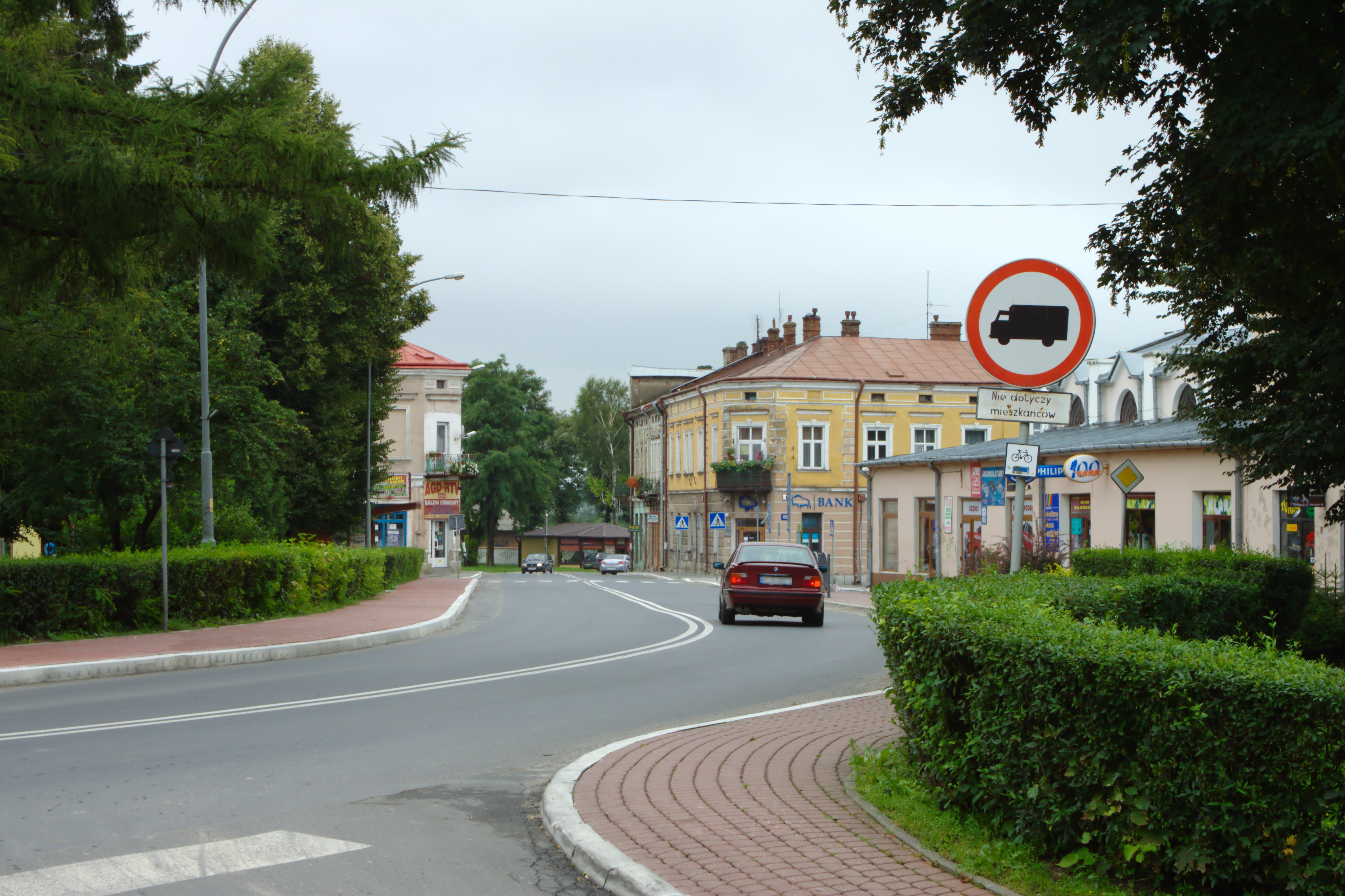 Main square in Radymno This photo of Subcarpathian Voivodeship was taken during Wikiekspedycja 2011 set up by Wikimedia Polska Association.You can see all photographs in category Wikiekspedycja 2011. The making of this document was supported by Wikimedia Polska.